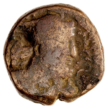 Coin minted during the reign of Hormizd II Kushanshah in the name of the governor Meze.